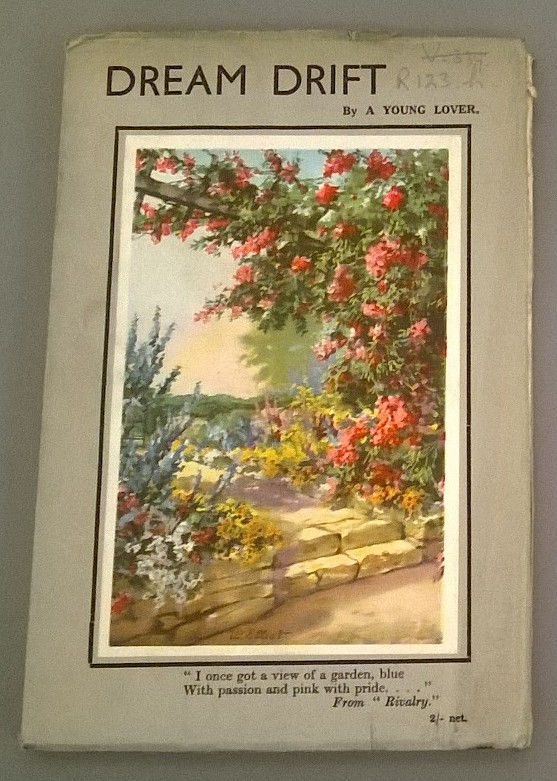 Dream Drift (book of poetry) by Aeneas Francon Williams, first edition